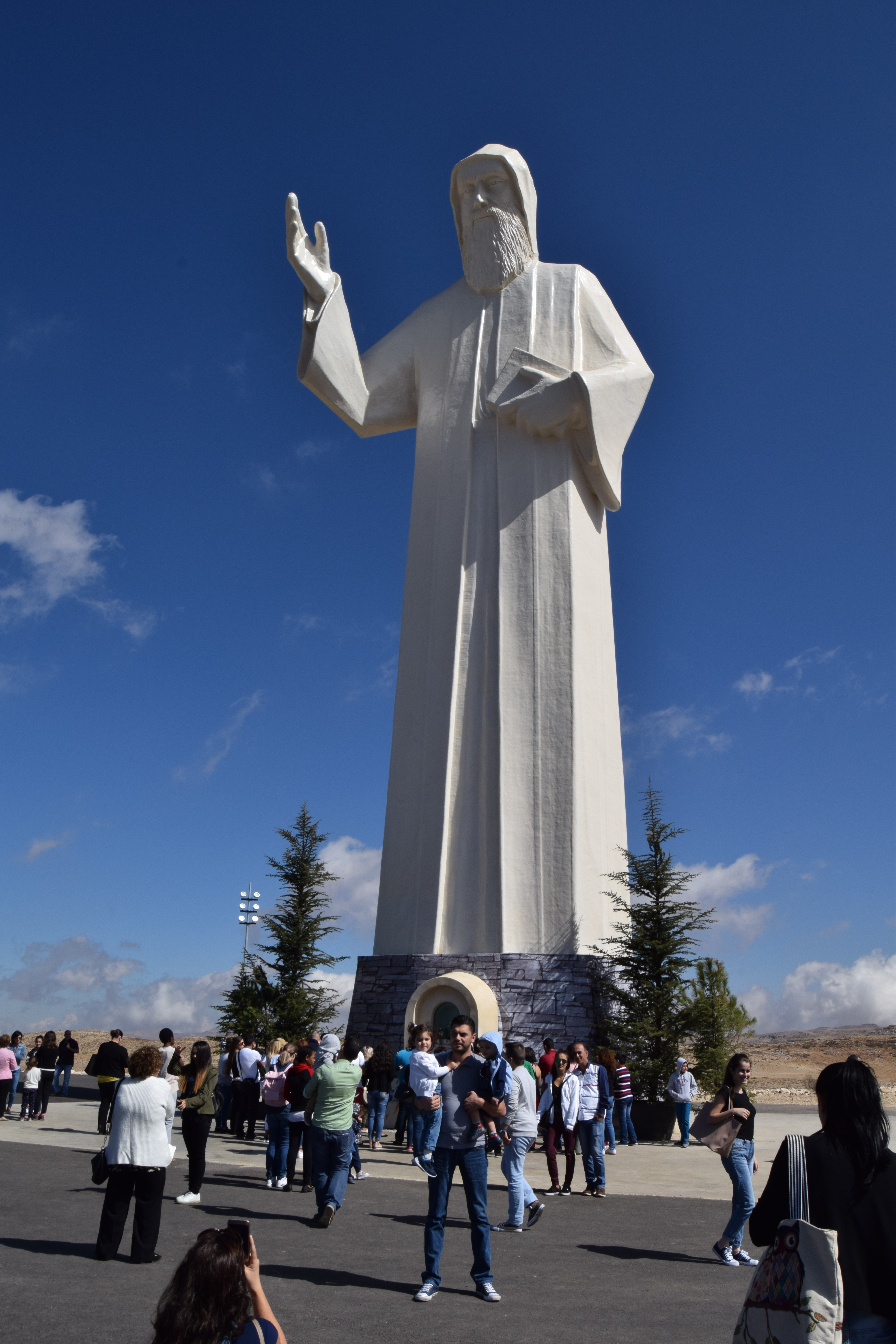 Statue of St. Charbel Makhlouf in Faraya, Lebanon and visitors of the monument.